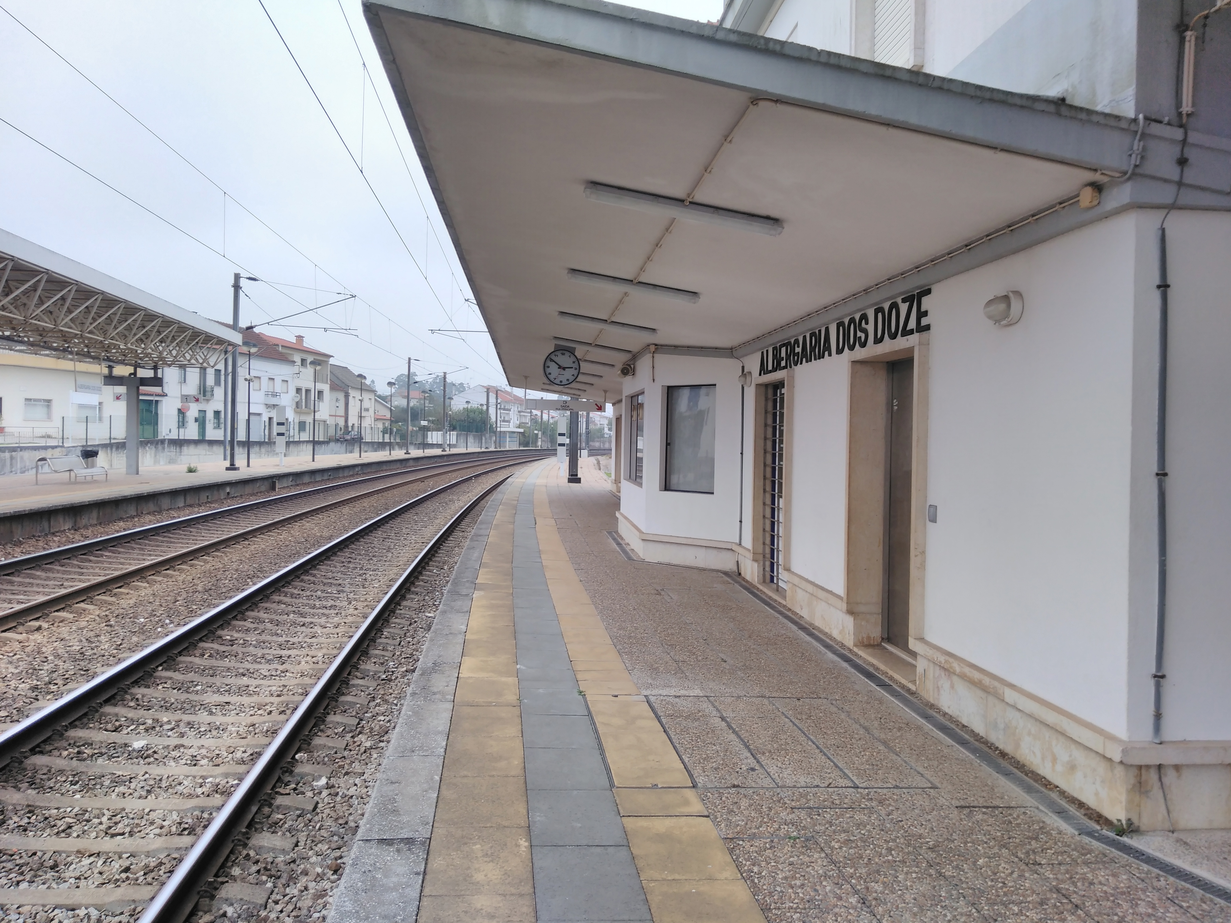 Clock and sign for Albergaria dos Doze train station